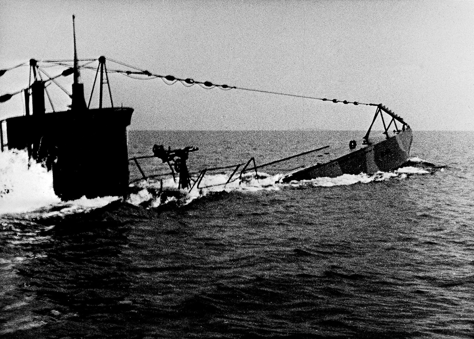 Submarine Vesikko surfacing